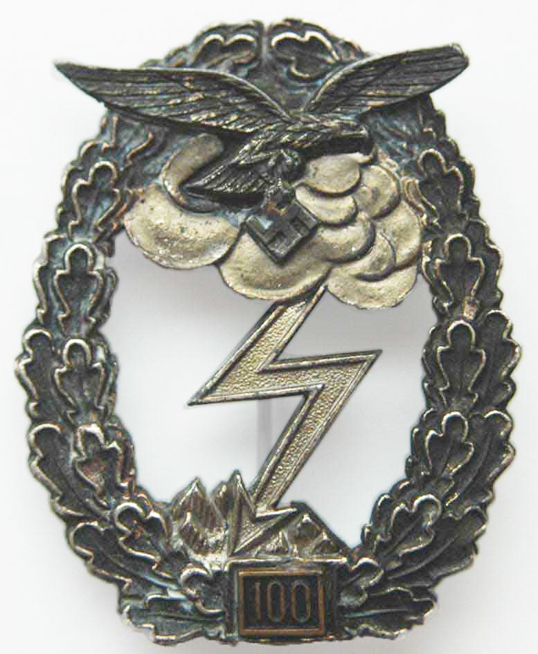 This is my grandfather's Luftwaffe Ground-Attack Badge.